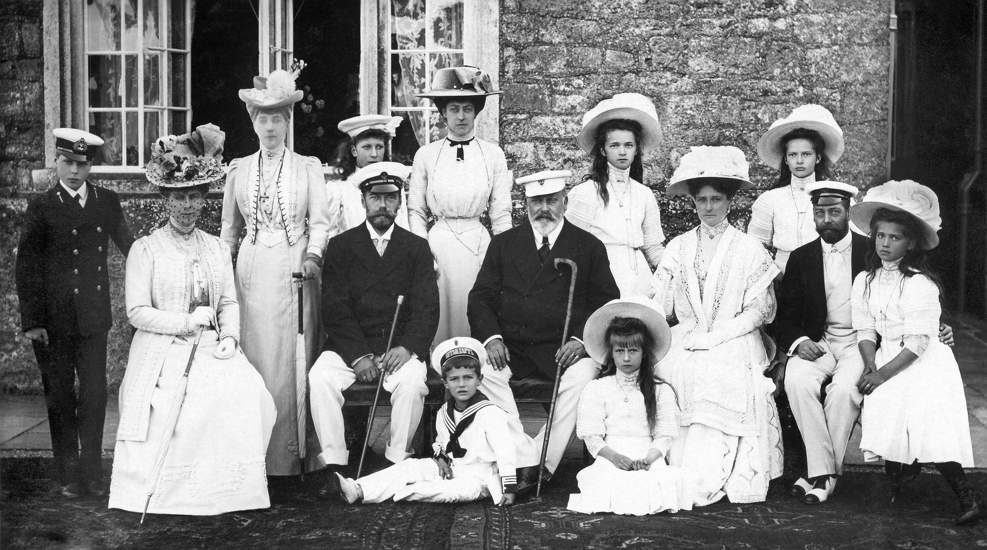 The Royal Gathering at Osborne(l-r) Prince Edward, Princess of Wales, Queen Alexandra, Princess Mary, The Czar, Princess Victoria, The Czarewitch, King Edward, Grand Duchess Olga, Grand Duchess Anastasia, Czarina, Grand Duchess Tatiana, Prince of Wales and Grand Duchess Marie